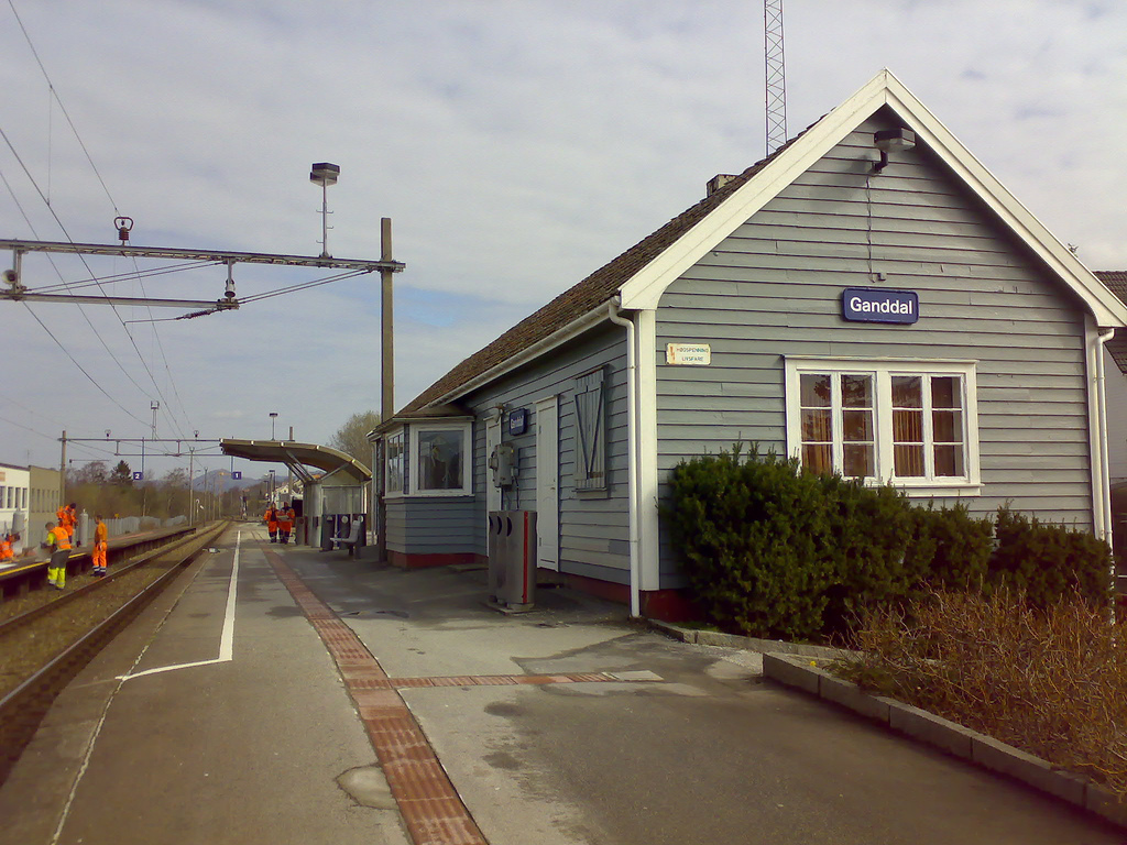 Ganddal station, Jærbanen, Norway.